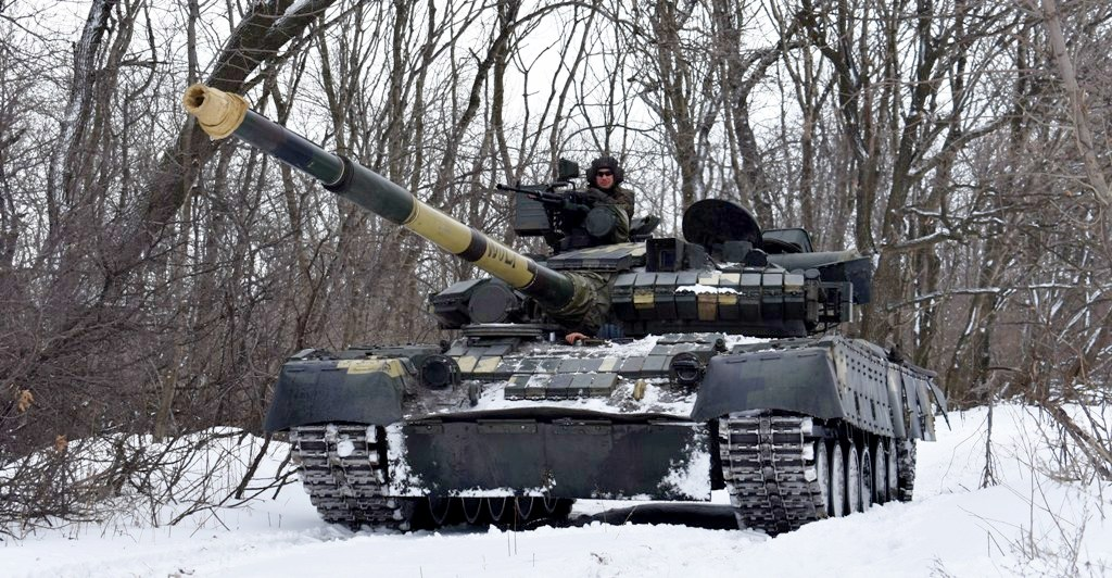 T-80BV of 25th Airborne Brigade (Ukraine)